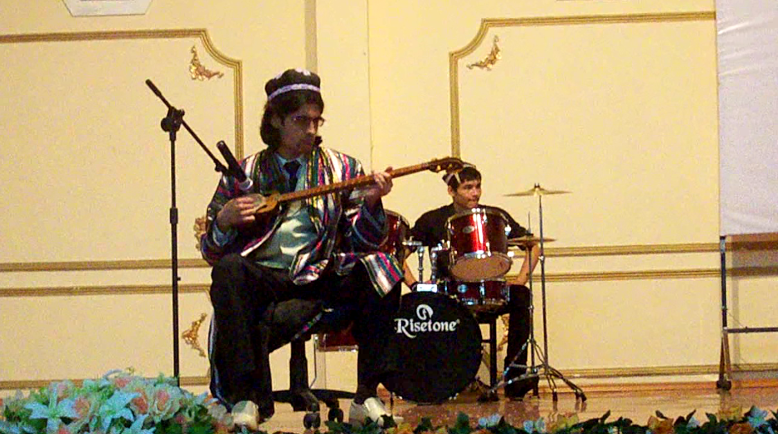 An Uzbek guy playing the Kashgari rubab.